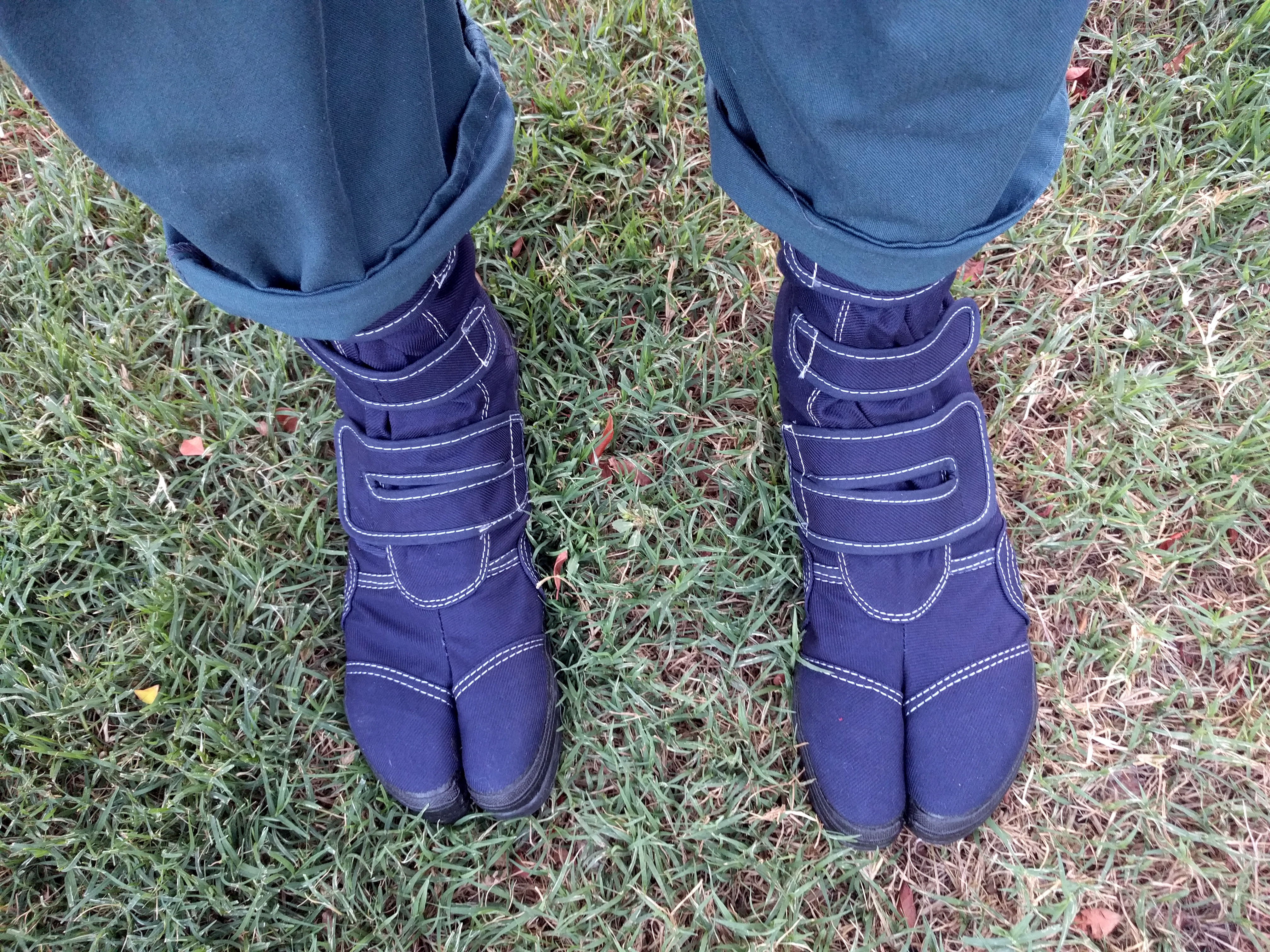 New steel-toed tabi boots, home, Burbank, California, USA